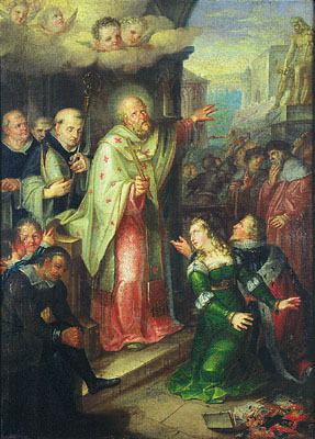 Christening of Duke Borivoj